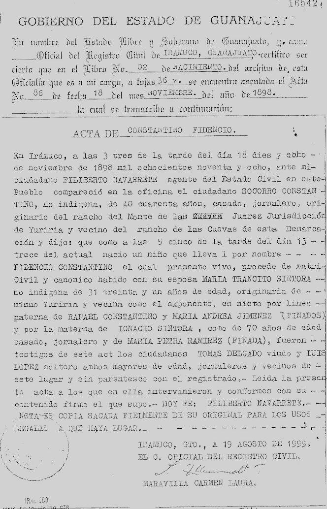 Acta de nacimiento del Niño Fidencio